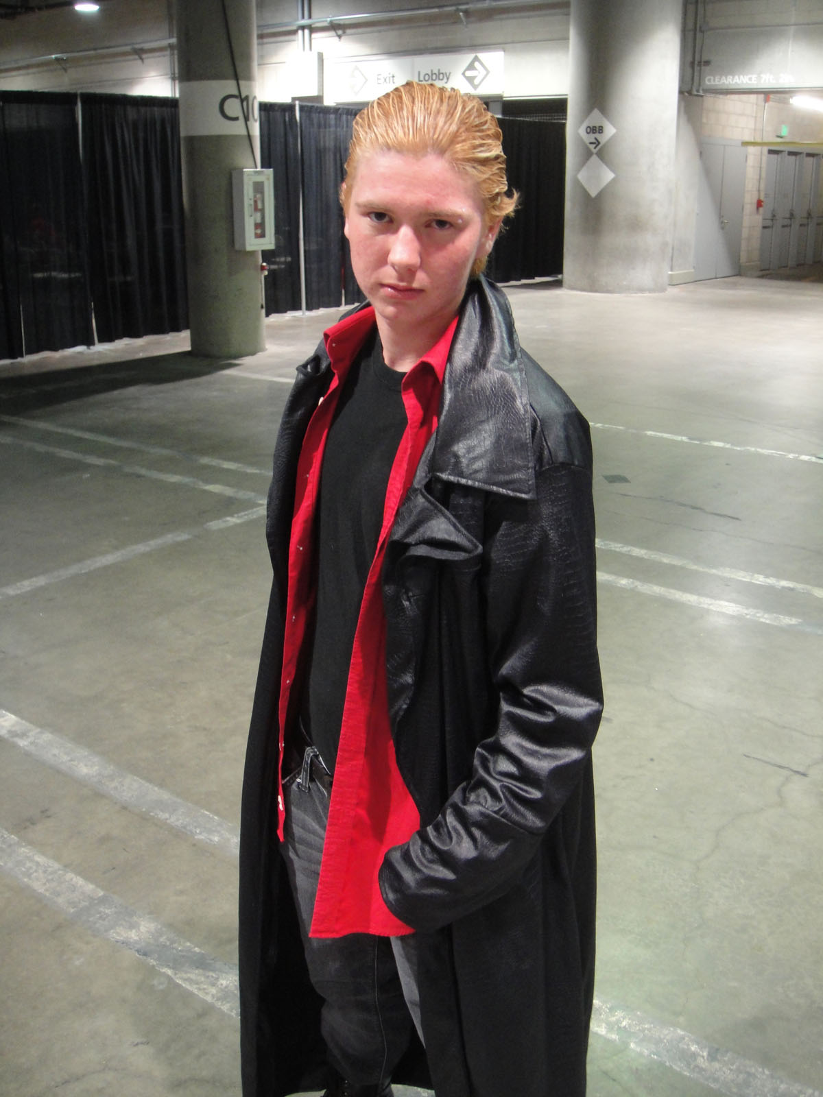 photo 2011 Pop Culture Geek taken by Doug Kline If you're interested in higher resolution versions of my images, contact me via my profile page.